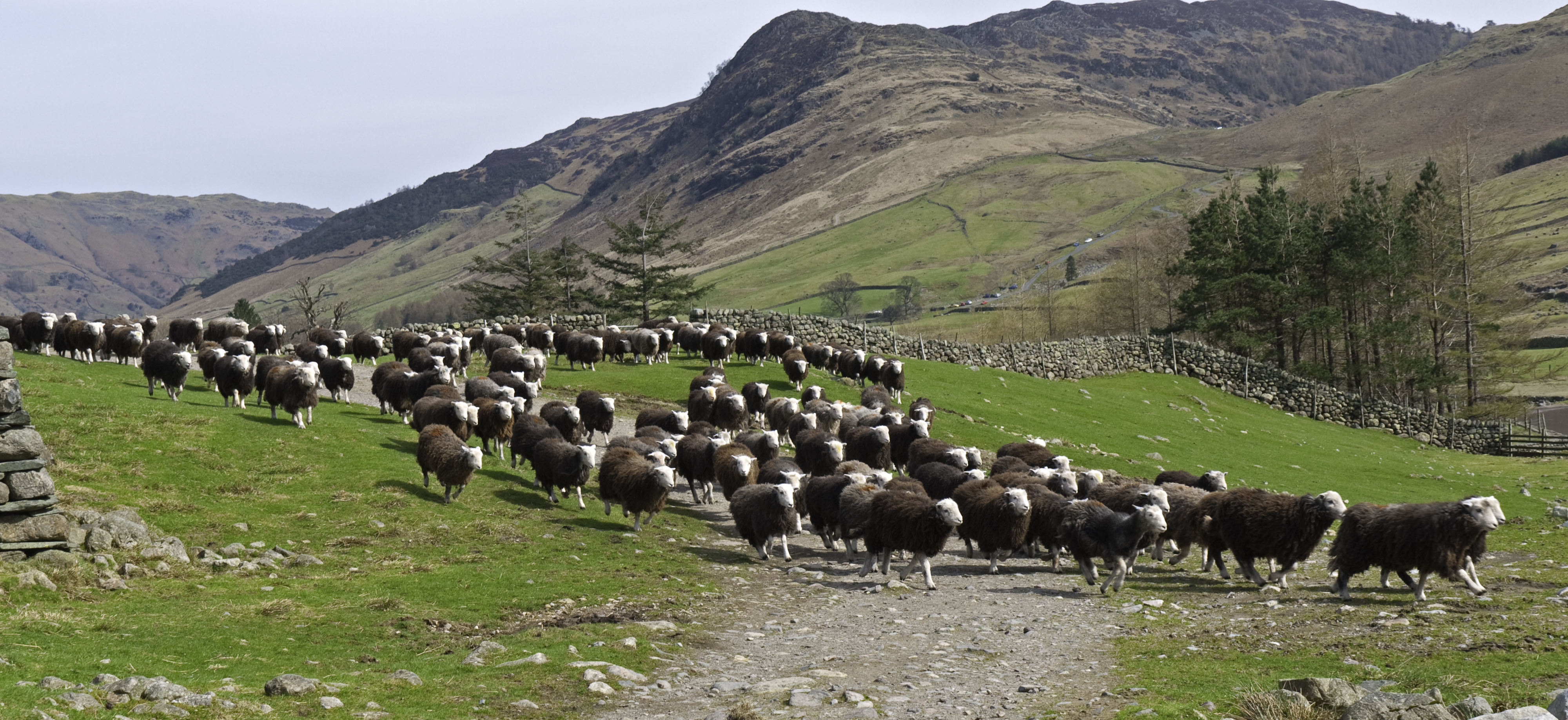 A herd of Herdwick sheep in Cumbria.